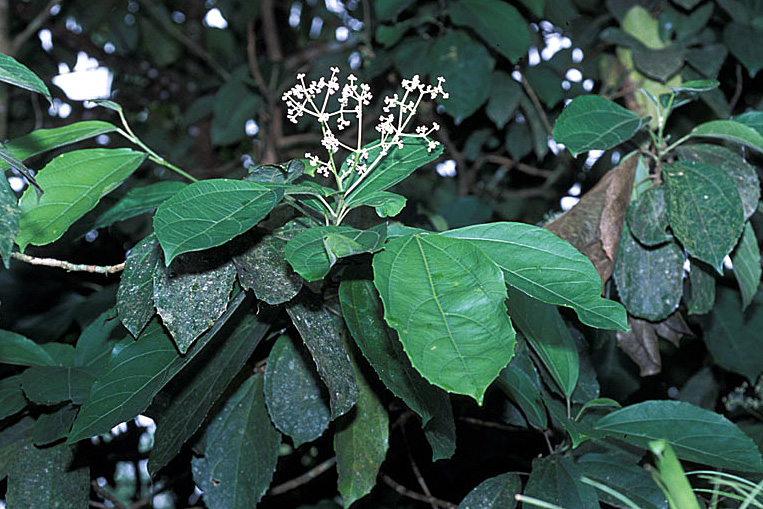 Hasseltia floribunda (Salicaceae) in flower. COSTA RICA: Heredia: La Selva Biological Station.